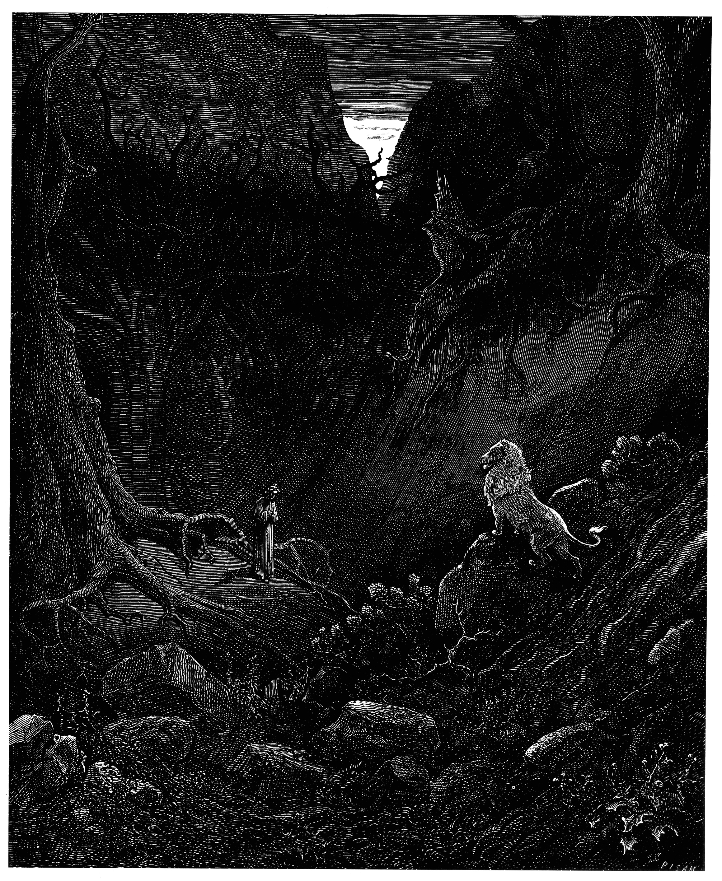 Gustave Doré's illustration to Dante's Inferno. Plate III: Canto I, "He seemed as if against me he was coming / With head uplifted, and with ravenous hunger" (Longfellow's translation)